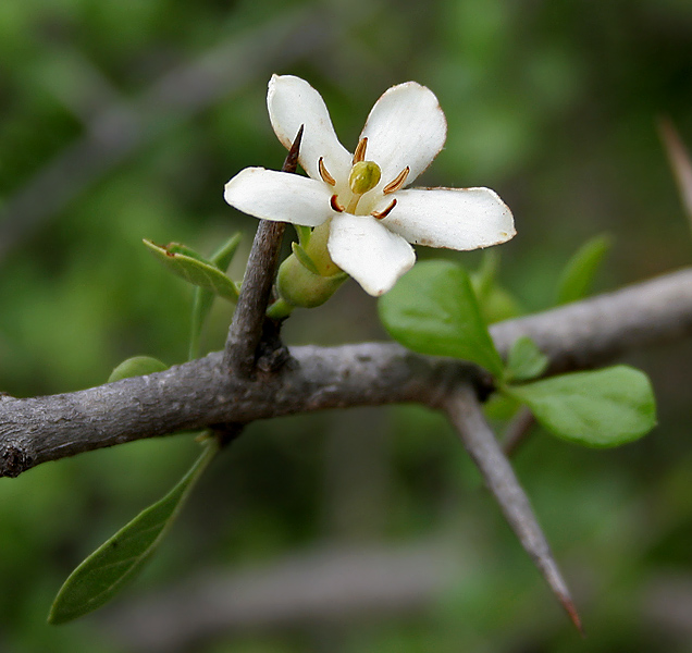 Catunaregam spinosa - Mountain Pomegranate, Spiny Randia, False guava, Thorny Bone-apple, Common emetic nut • Hindi: मैनफल Mainphal • Marathi: घेला Ghela, Khajkanda • Tamil: Madkarai • Malayalam: Karacchulli • Telugu: Marrga • Kannada: Kaarekaayi-gida • Oriya: Patova • Sanskrit: Madanah in Keesara, Rangareddy district, Andhra Pradesh, India.